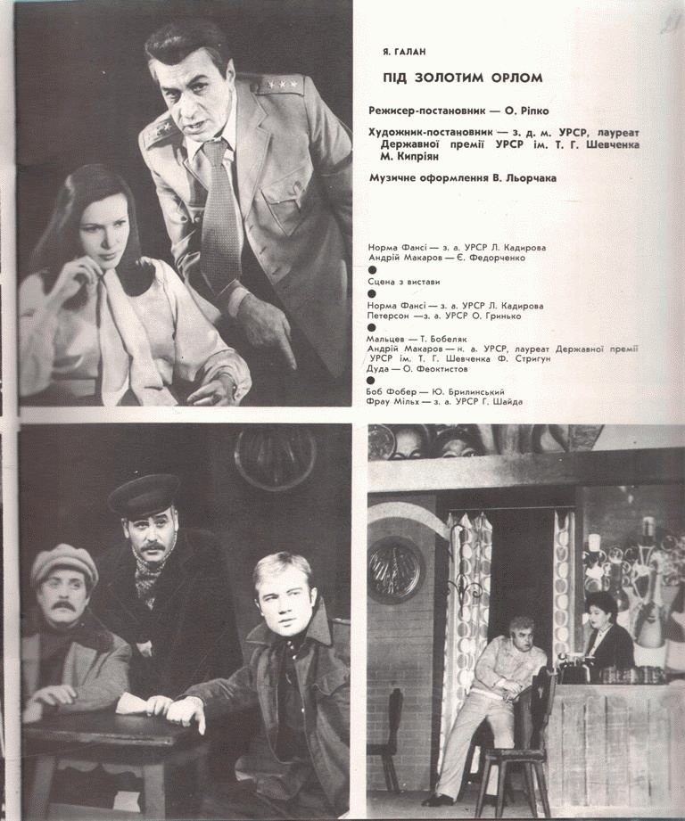 Photos of the performance Under the Golden Eagle by Yaroslav Halan (Zankovetska Theatre, Lviv, Ukrainian SSR, 1982)